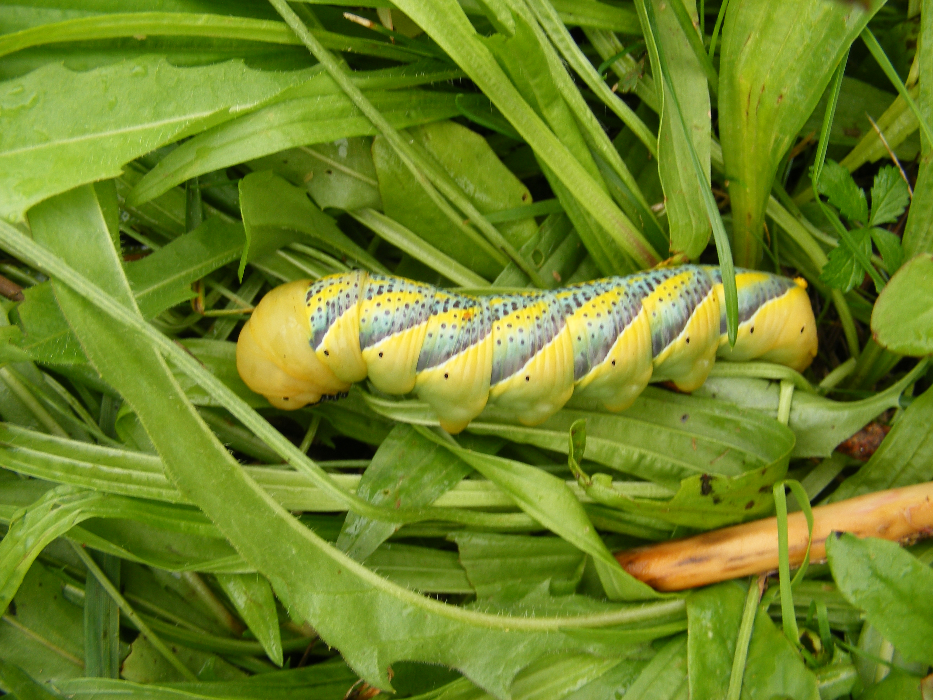 Unidentified caterpillar (seen in Bavaria).